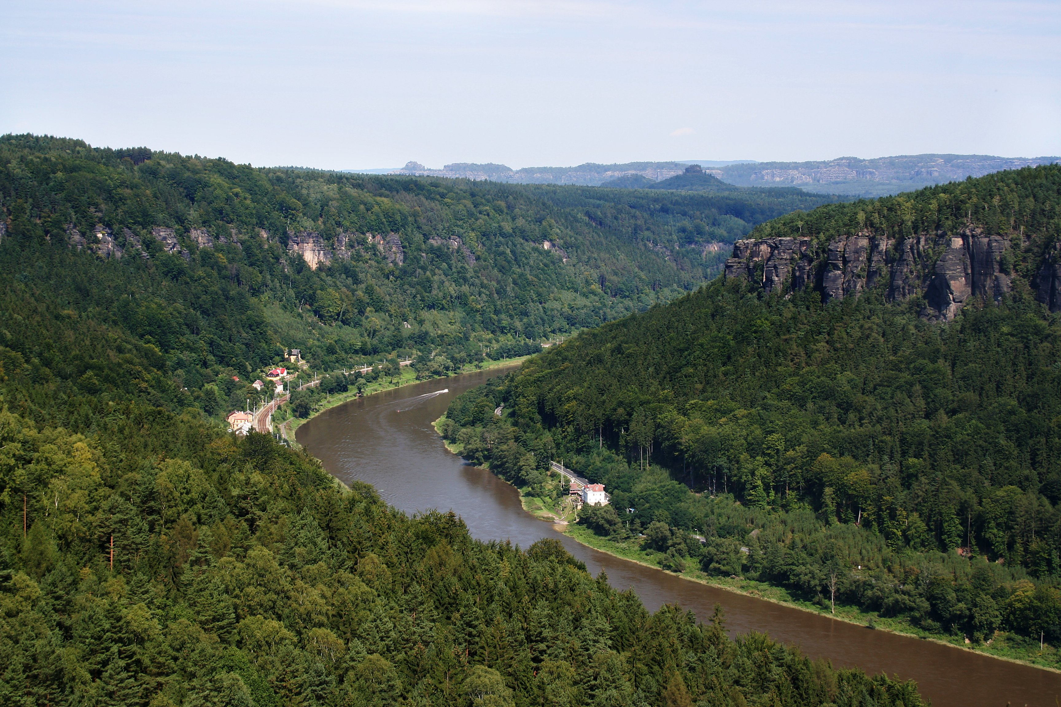 Valley of the Labe near Děčín.